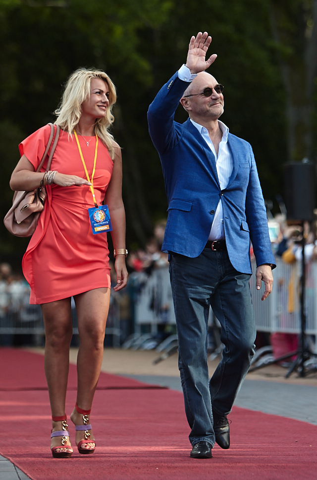 Red Carpet of 13 Baltic Debuts Film Festival (2017)